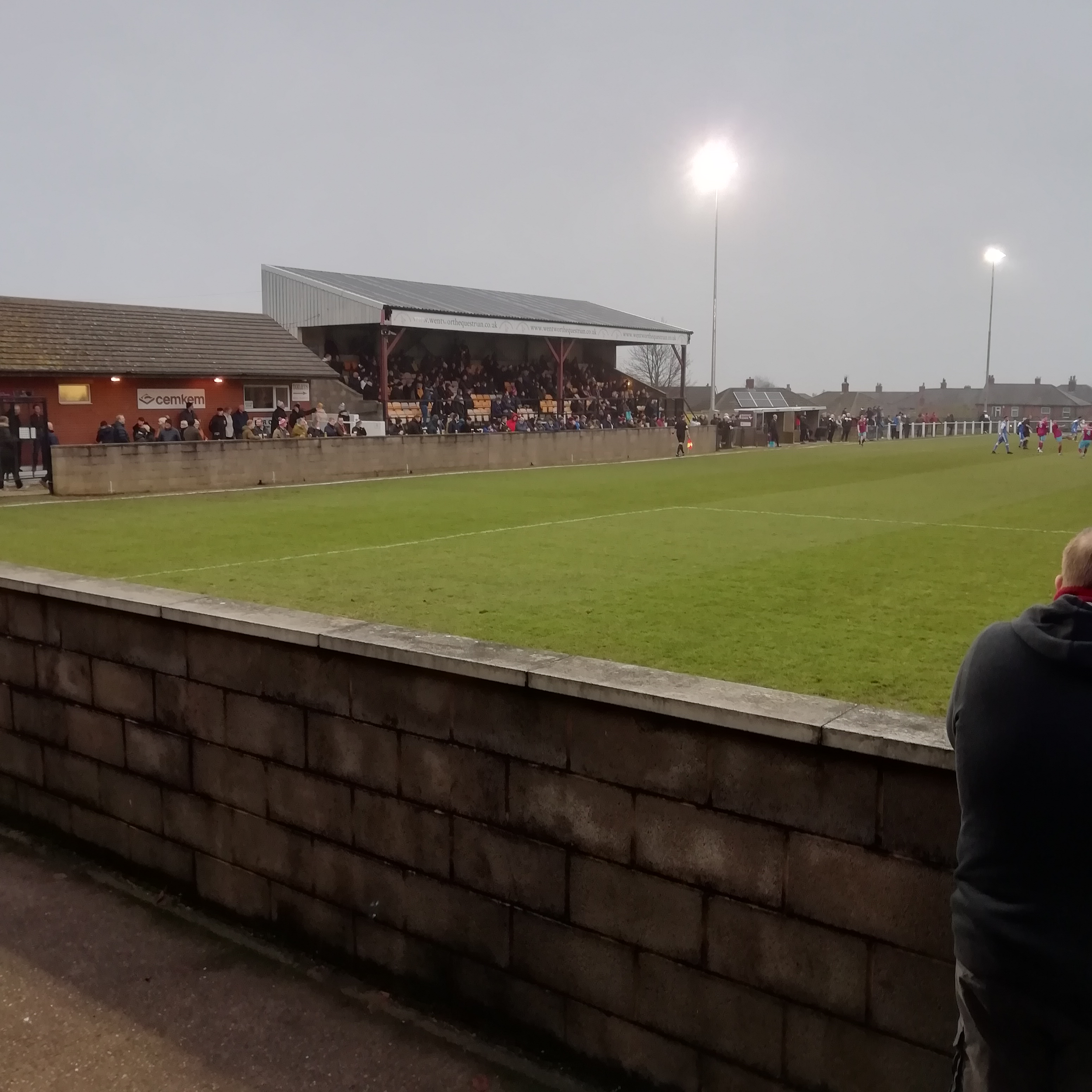 View of the Stand and buildings from "The Shed"